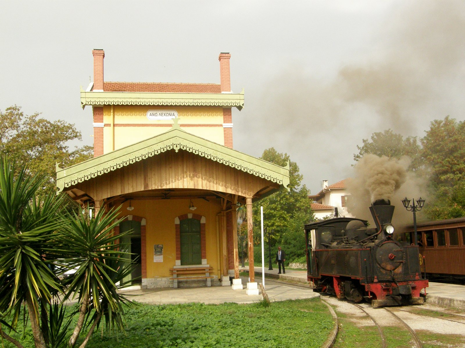 GREECE: A Tubize narrow gauge steam locomotive at Ano Lechonia station on the Pelion Railway.